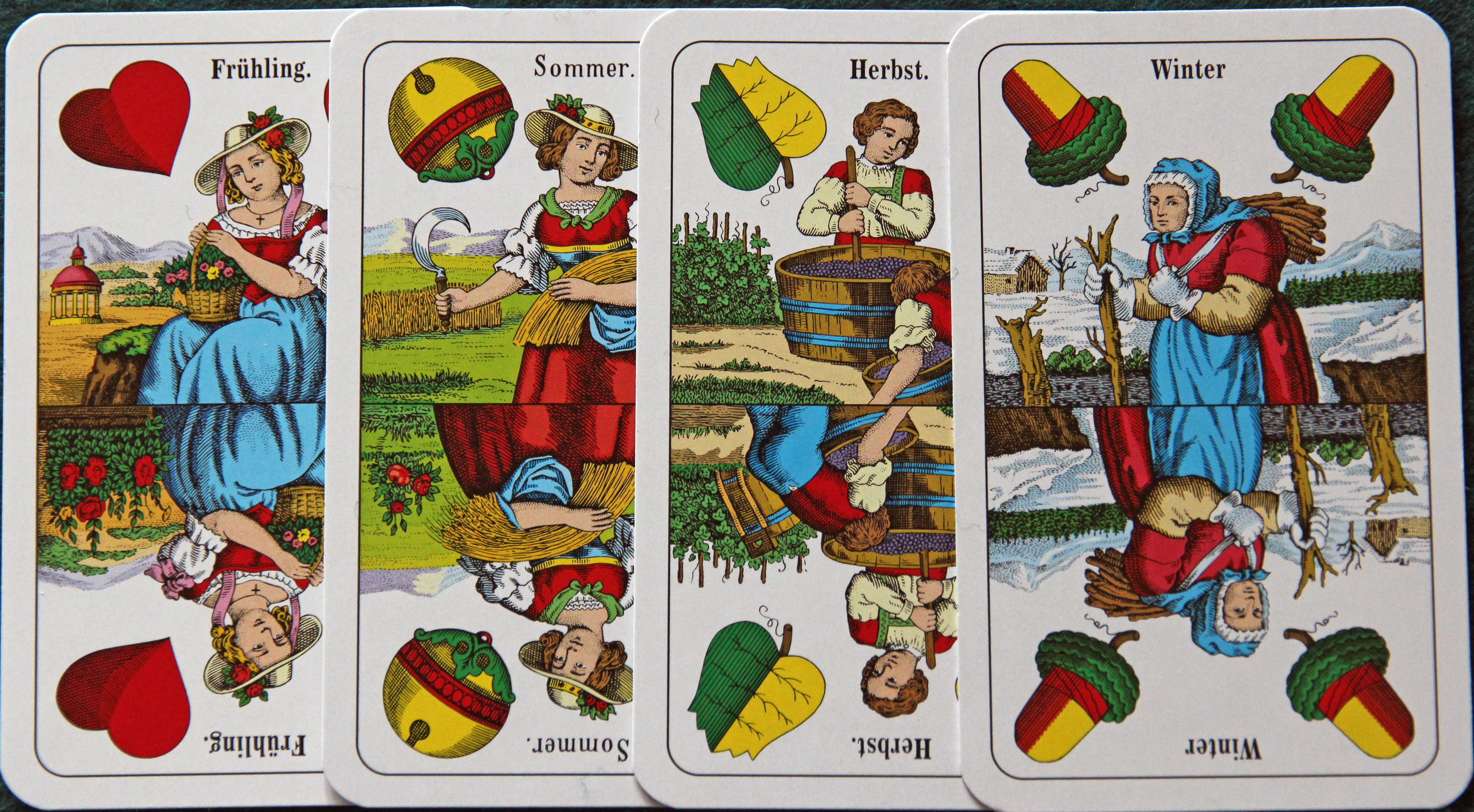 The four Deuces (Aces) in the William Tell pattern German-suited pack The original artist of the card design is József Schneider, 19th century (source: Daily News Hungary: From Germany to Hungary, the story of tell cards, by Gergely Lajtai-Szabó, 15 October 2017).